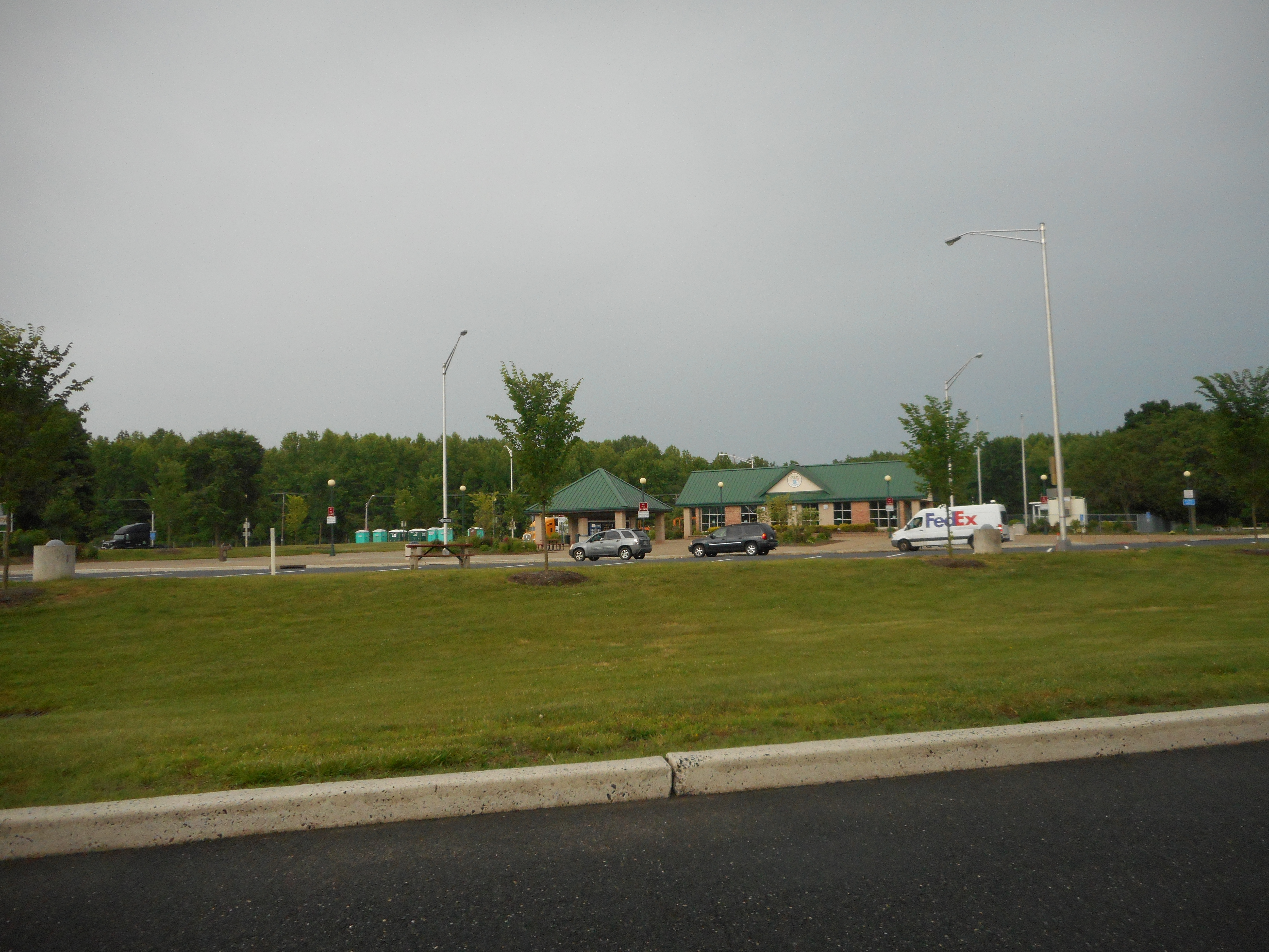 Images related to the northbound Interstate 295 Welcome Center in Carneys Point Township, New Jersey. Further details and a probable rename to come later.